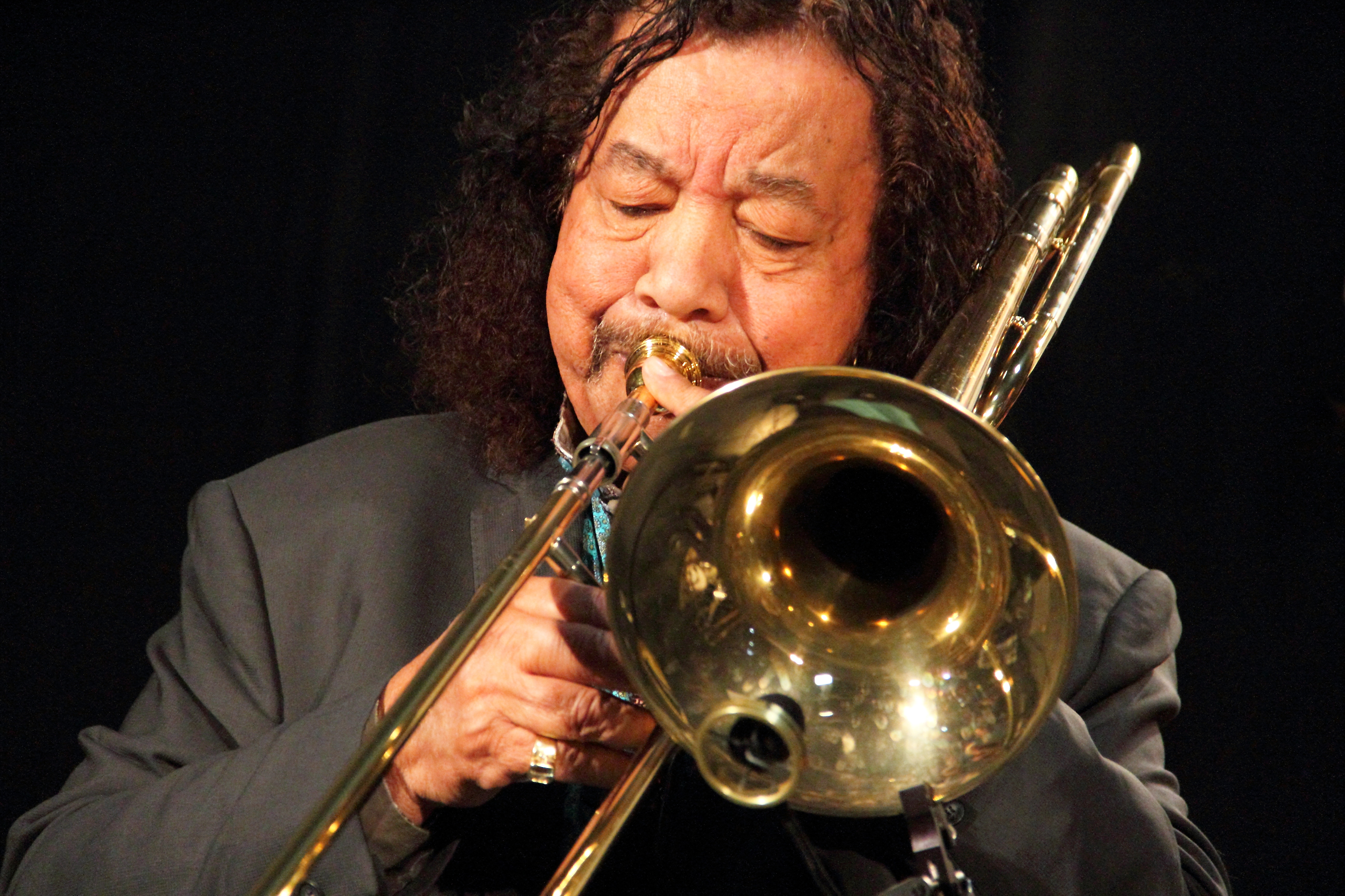 Raul de Souza and his Next Generation Band at INNtöne Jazzfestival 2018.